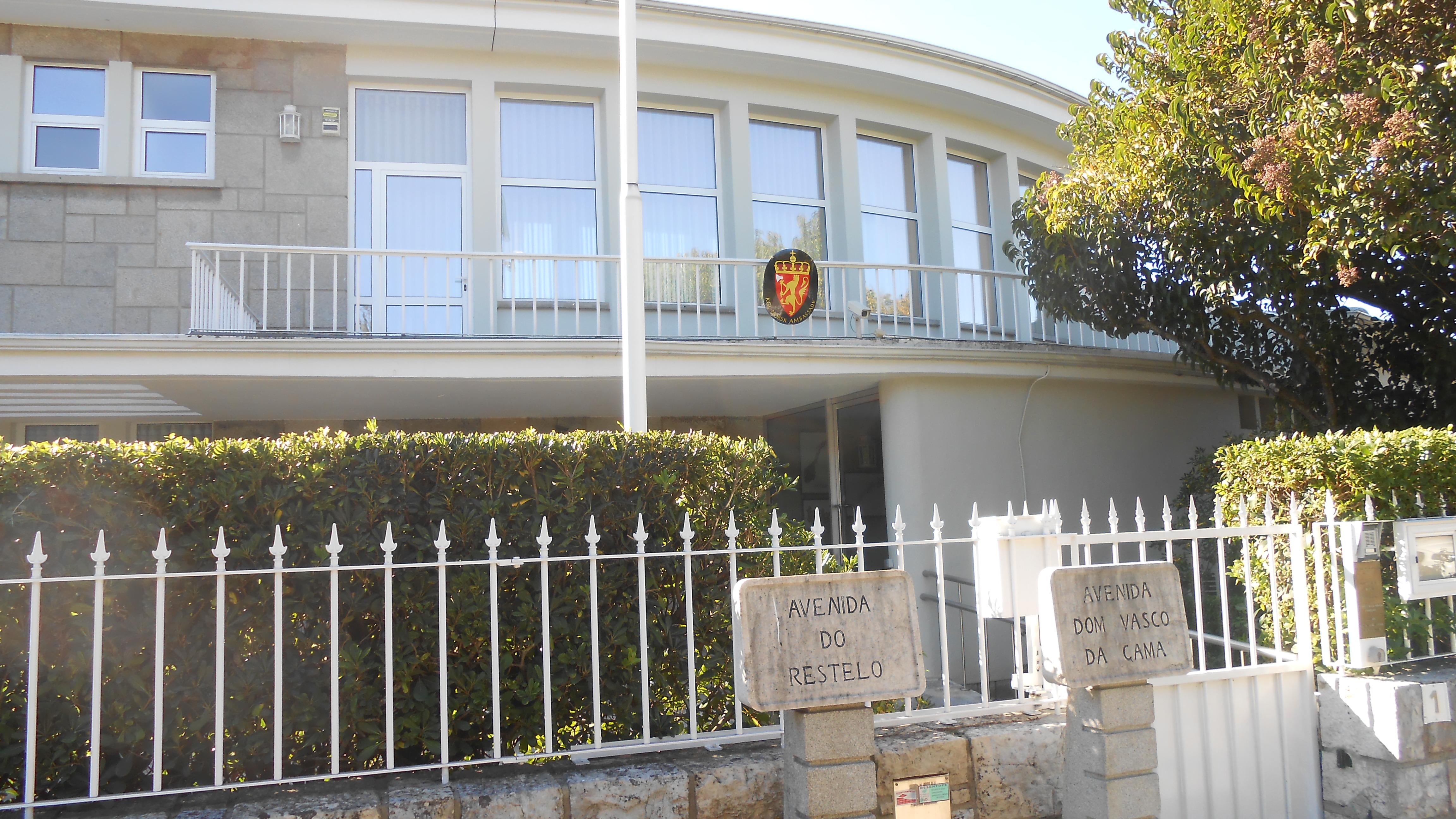 The embassy of Norway in Belém, a neighbourhood in Lisbon.